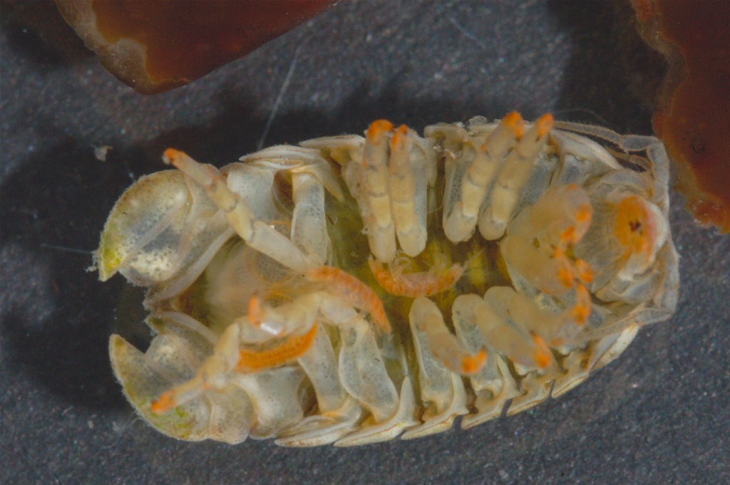 Several Iais pubescens specimens, in situ in the brood pouch of a larger isopod